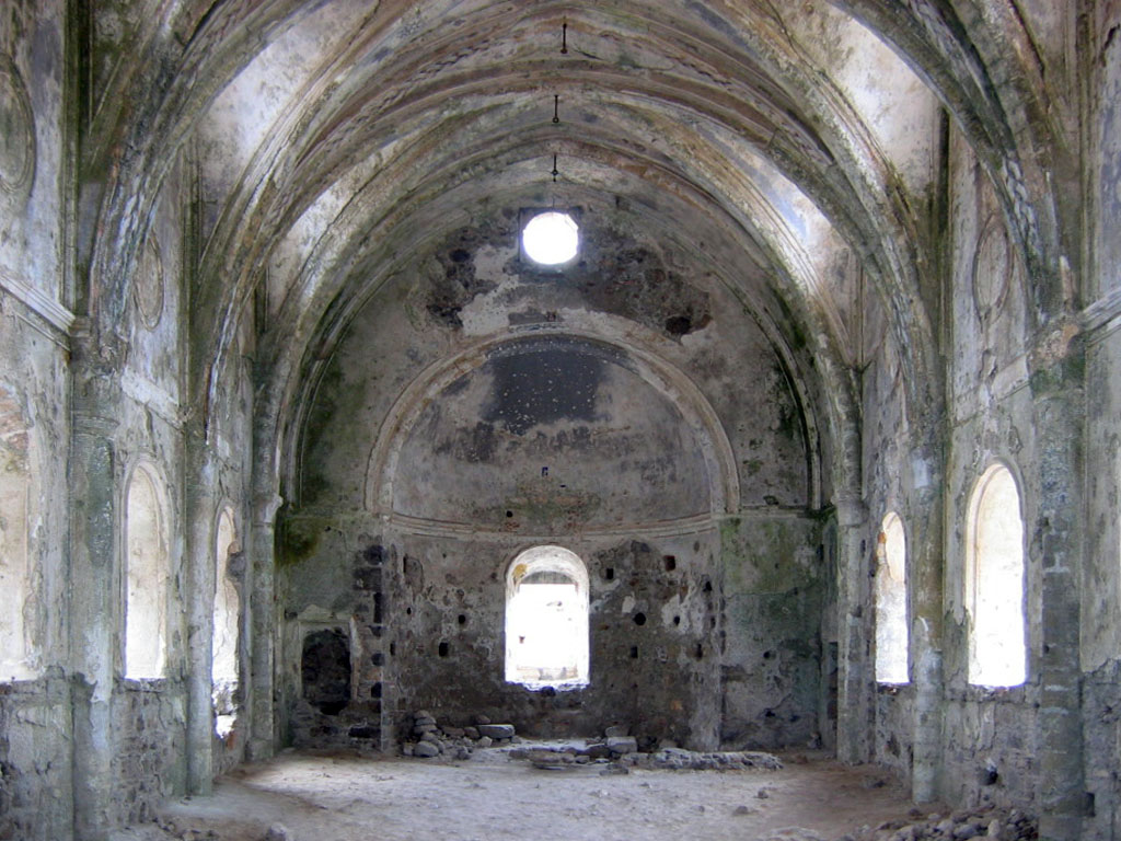 Inside an abandoned Greek Orthodox church at Kayaköy village near Fethiye, Turkey.